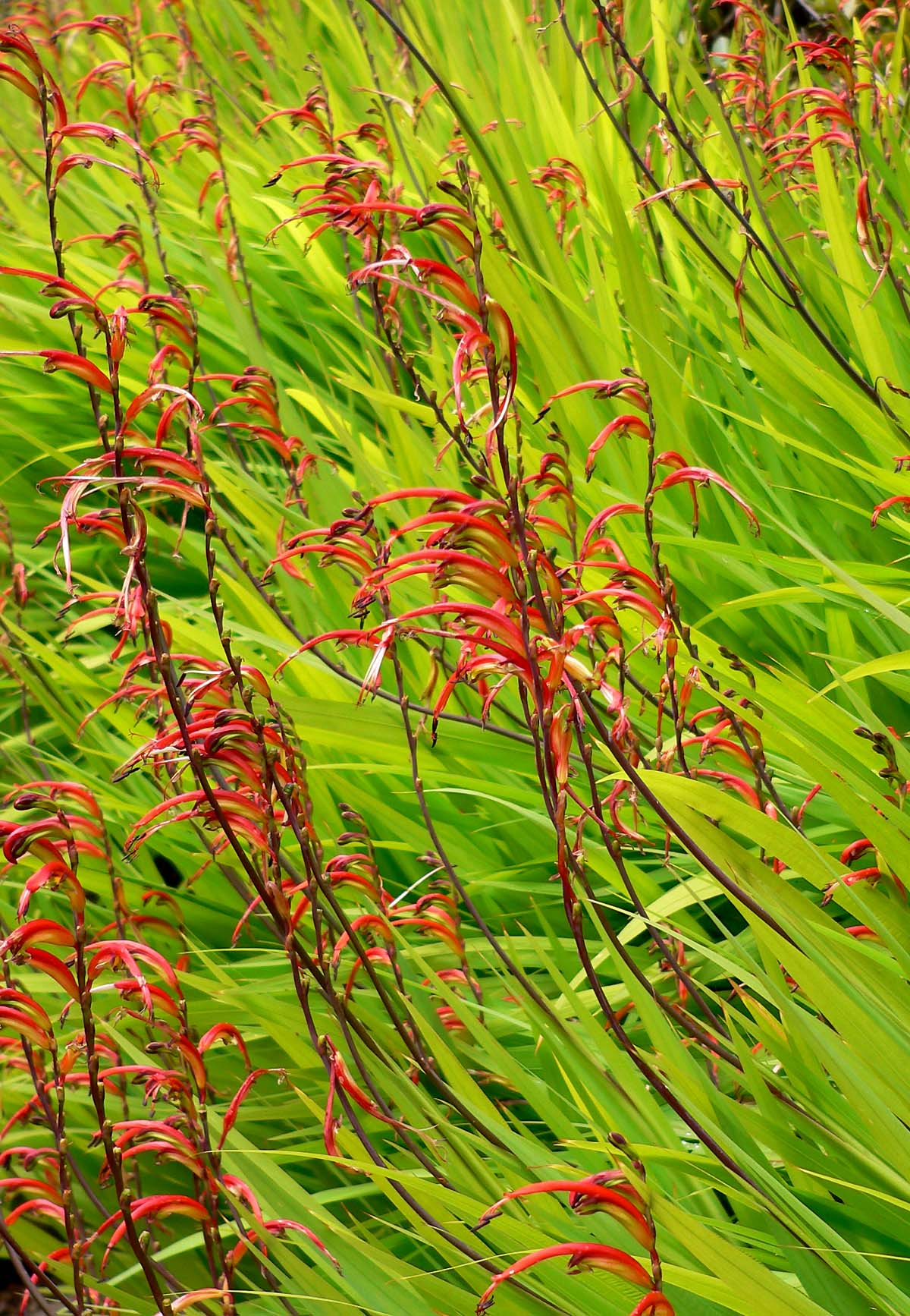 Photo of Chasmanthe floribunda at the University of California Botanical Garden